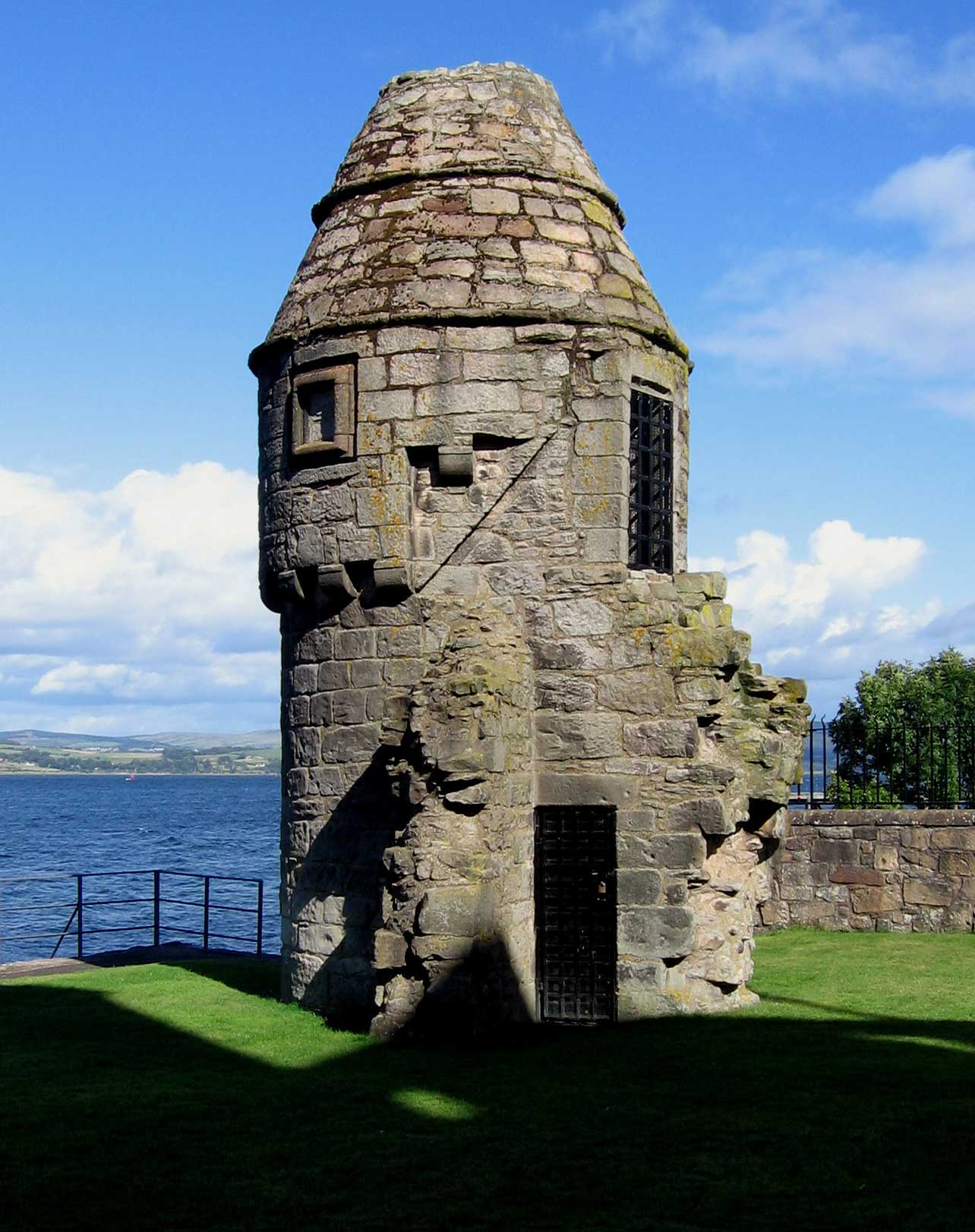 Doocot at Newark Castle, Port Glasgow, Scotland with the River Clyde in the background.